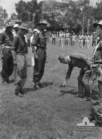 Major General Michio Uno, Imperial Japanese Army, Commanding the Japanese Forces in the area, lays his sword at the feet of Lieutenant Colonel Murray Robson, Commanding Officer, 2/31 Infantry Battalion during the Japanese surrender ceremony on the local sports ground. Also identified is Warrant Officer Class 2 Arthur Pappadopoulos, Interpreter with the Allied Translator and Interpreter Section (ATIS), beside Robson and on the extreme left. Behind Lt Col Robson is Warrant Officer Class 1 George Hawkins. 17 September 1945.